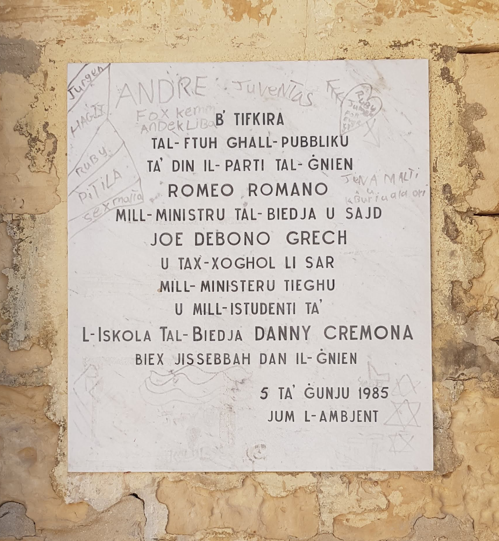 Inscription dated 5 June 1985 at Romeo Romano Gardens in Santa Venera, Malta. It commemorates the opening to the public of part of the garden by Joe Debono Grech, Minister of Fisheries and Agriculture, and of the work carried out in the garden by the Ministry and by the Danny Cremona Agriculture Trade School. This media is about Maltese cultural property with inventory number 01226.